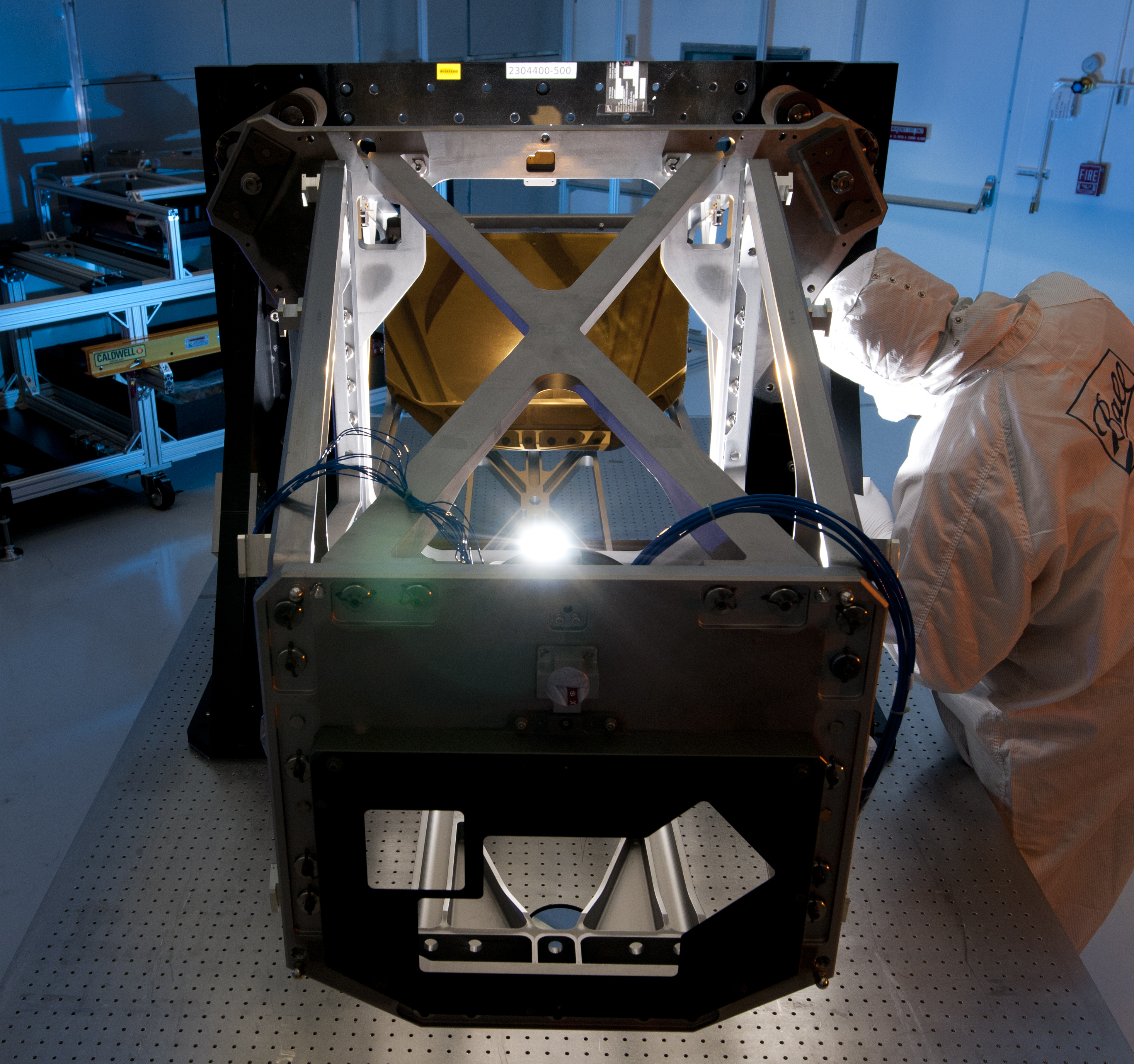 Ball Aerospace Technician Robin Russell inspects the Webb Telescope Aft Optics Subsystem during mirror integration activities. The Aft Optics bench, made of lightweight beryllium like the mirrors, holds Webb's tertiary and fine steering mirrors. The installed, gold-coated tertiary mirror can be seen in the background. Credit: Ball Aerospace NASA image use policy. NASA Goddard Space Flight Center enables NASA’s mission through four scientific endeavors: Earth Science, Heliophysics, Solar System Exploration, and Astrophysics. Goddard plays a leading role in NASA’s accomplishments by contributing compelling scientific knowledge to advance the Agency’s mission. Follow us on Twitter Like us on Facebook Find us on Instagram